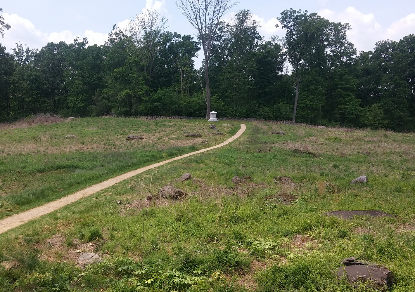 Slyder's Upper Field, where Cavalry General Elon Farnsworth was allegedly killed during "Farnsworth's Charge" on July 3, 1863; also location of the 1st Vermont Cavalry monument.